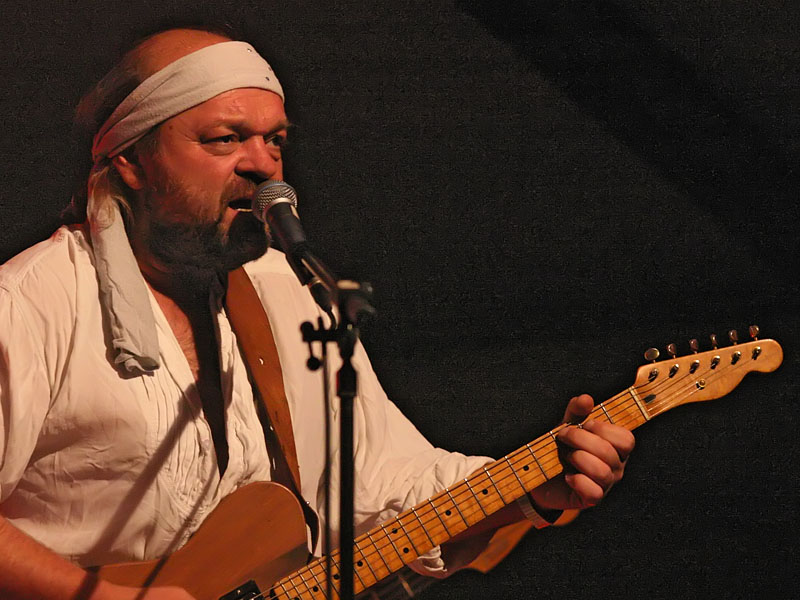 Christian Kunert, Member of Klaus Renft Combo, Eppendorf/Saxony 2003.